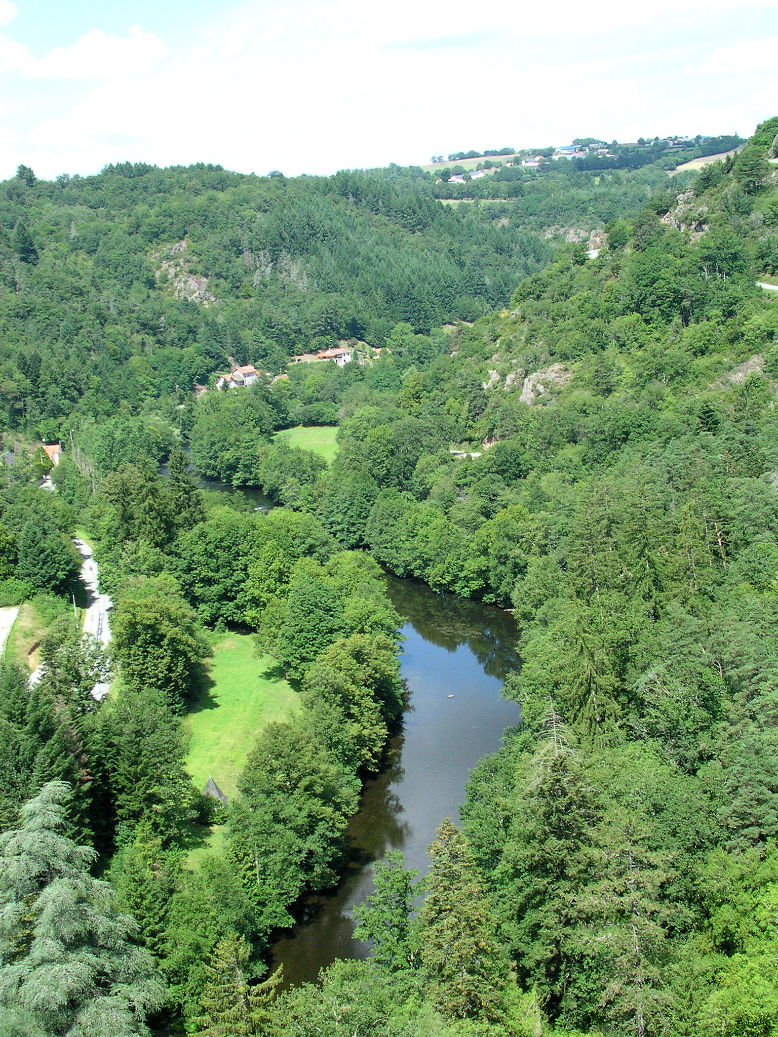 The Sioule river after Châteauneuf-les-Bains (Auvergne, France). Pcture taken from the top of the Charlemagne rock Auteur/Author Romary 10/10th août/August 2006